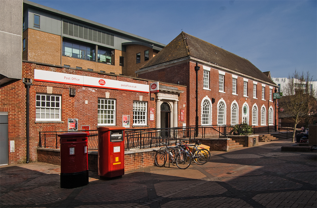 Bracknell Post Office